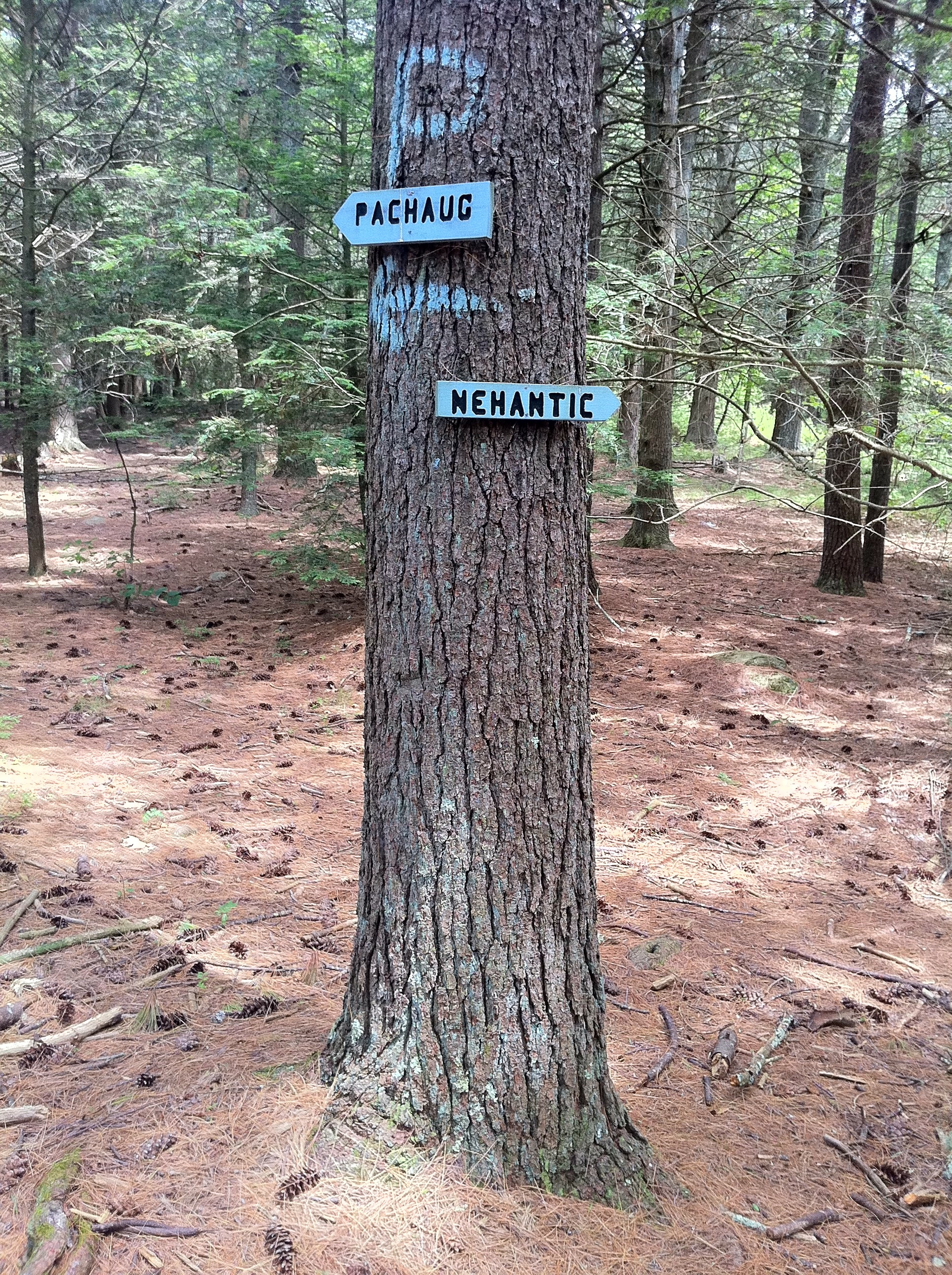 Nehantic Trail and Pachaug Trail eastern fork split.